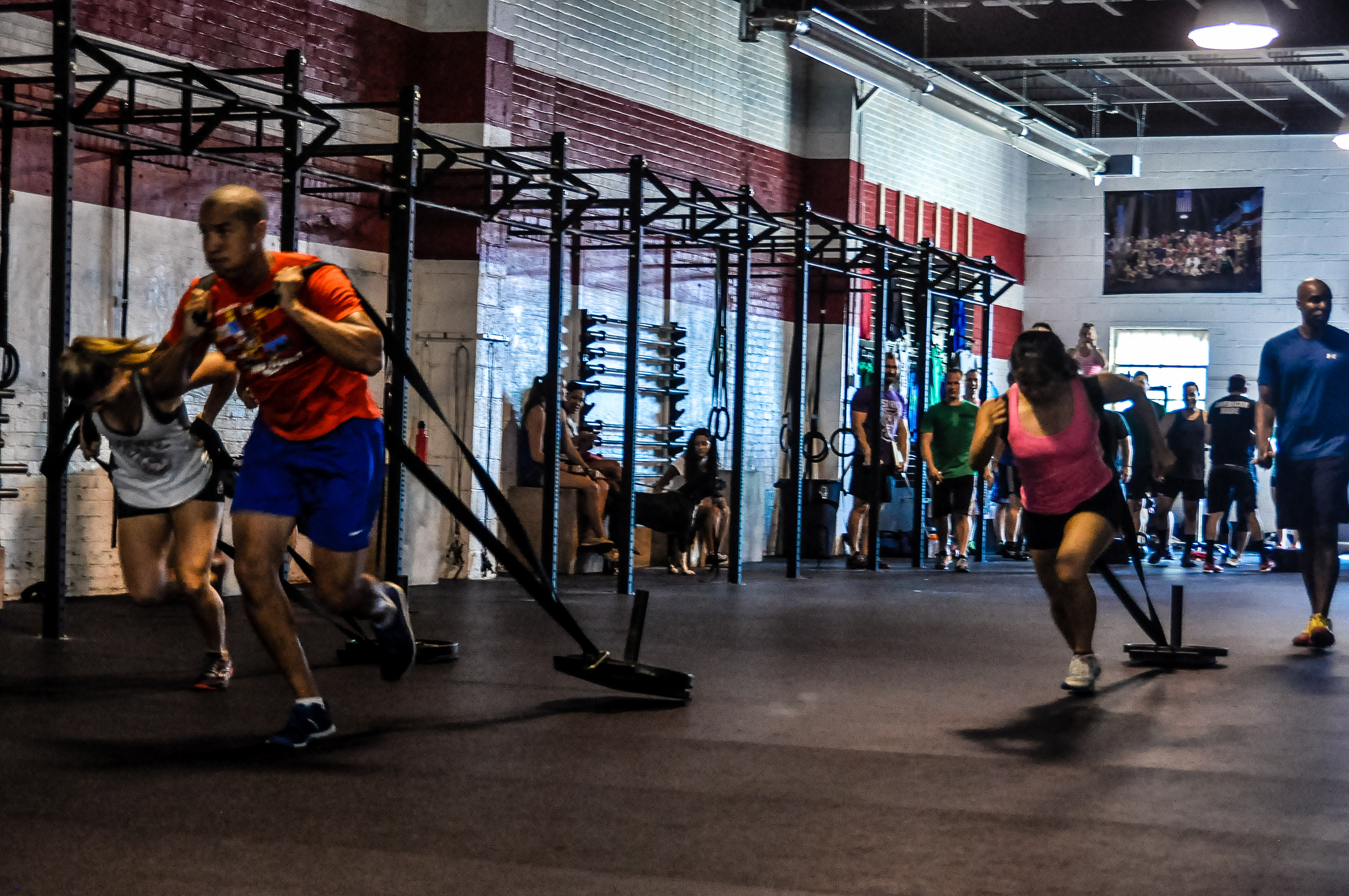 District Crossfit Class Warfare-28.jpg